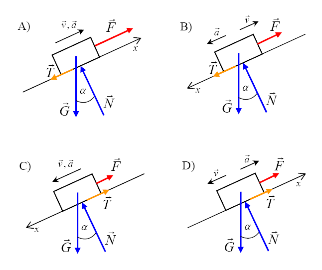 A force parallel to the inclined plane moves a body, friction (T) included